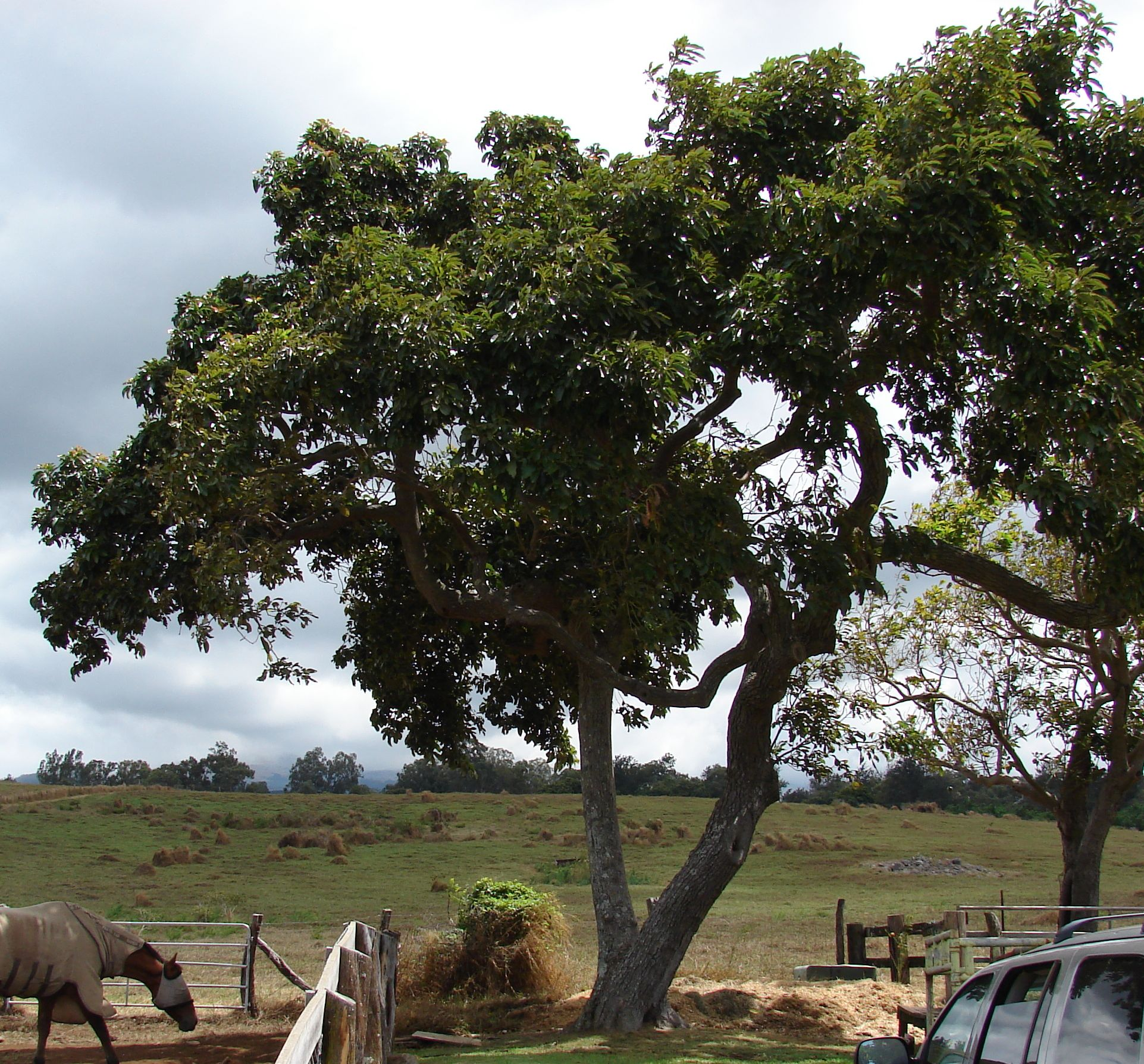 Persea americana (grazing horse). Location: Maui, Makawao Veterinary Clinic